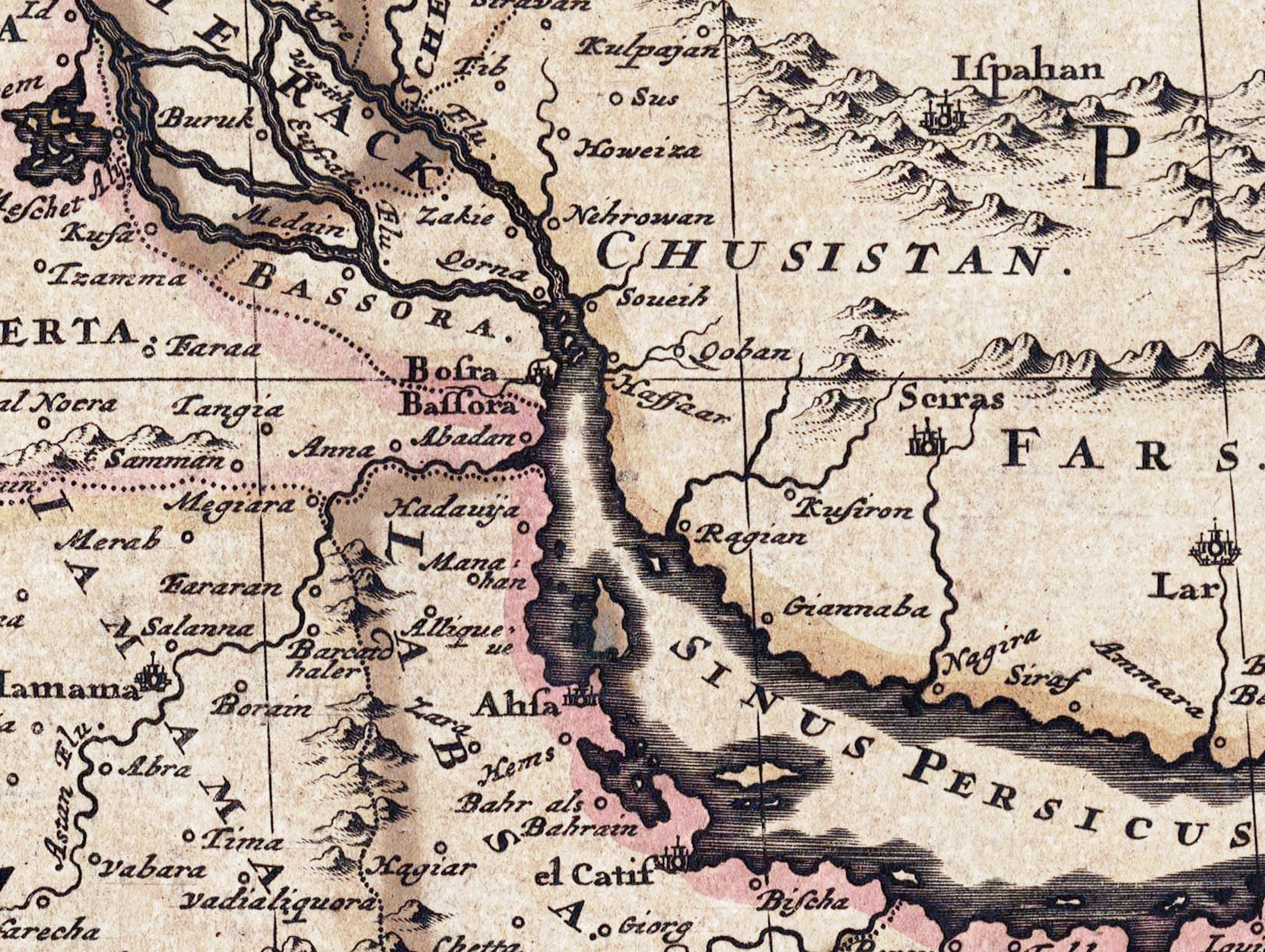 A map of Turkish possessions including Egypt and Greece by Justus Danckerts (1635-1701) shows the Arabian peninsula in the center. A decorative cartouche adorned with several costumed figures, a pyramid, and lions. Amsterdam. 52 x 62cm.